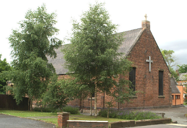 St. Mary's Church, Warrington Road, Lower Ince. The building was formerly part of the Hall of Ince Schools built between 1861 and 1875. The School moved to newer premises in 1974. The building was converted into the Church for the Parish in 1978, after it was decided to demolish the 1887 Paley & Austin church over the road which had become too expensive to repair, through mining subsidence damage.